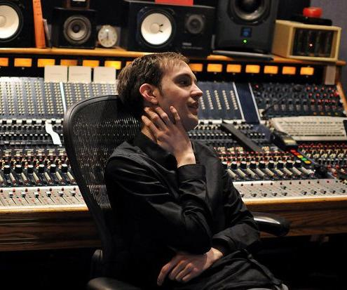 Beau Sorenson at the sound board of Smart Studios, Madison WI in 2009. Photo for Beau Sorenson.